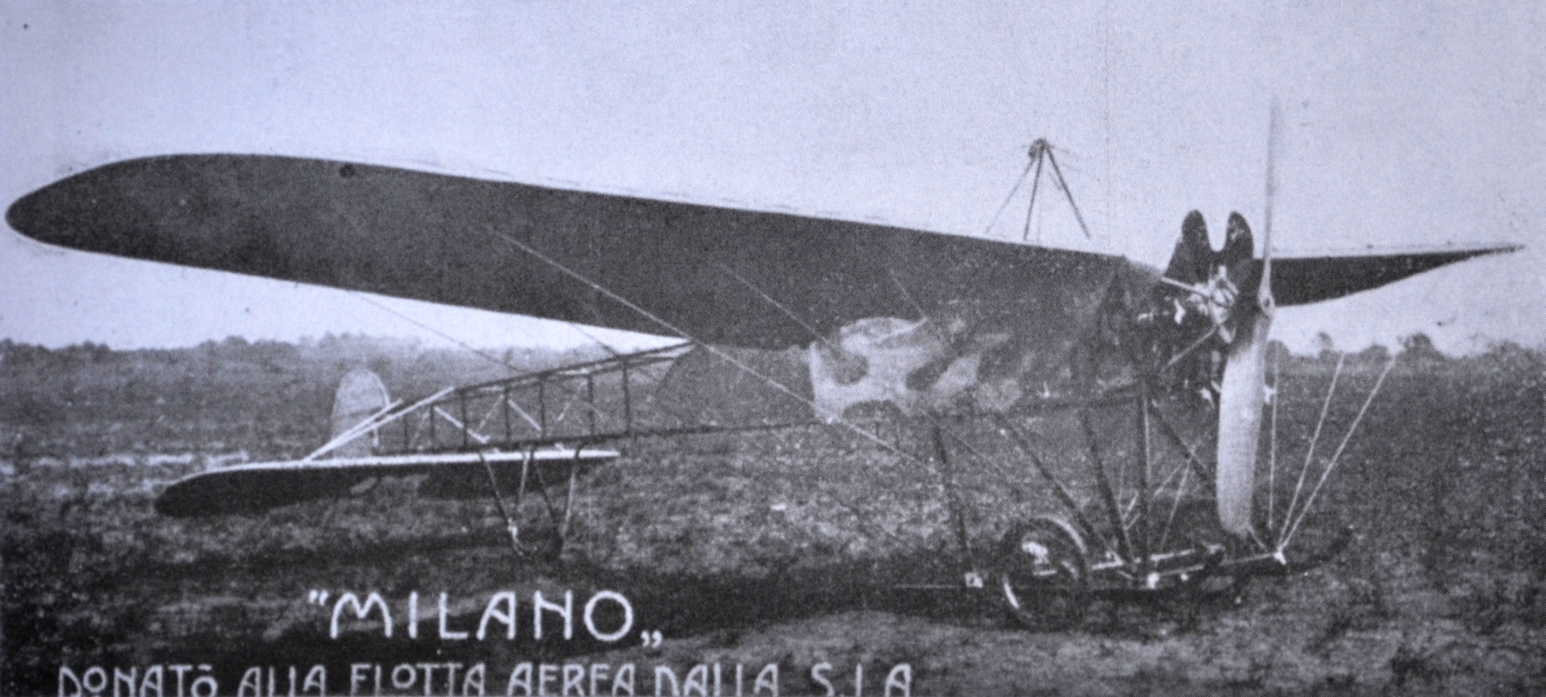 Italian pioneer biplane Caproni Ca.13; this example, known as "Milano I", was donated by Caproni to the Società Italiana Aviazione (Italian Aviation Society) in July 1912